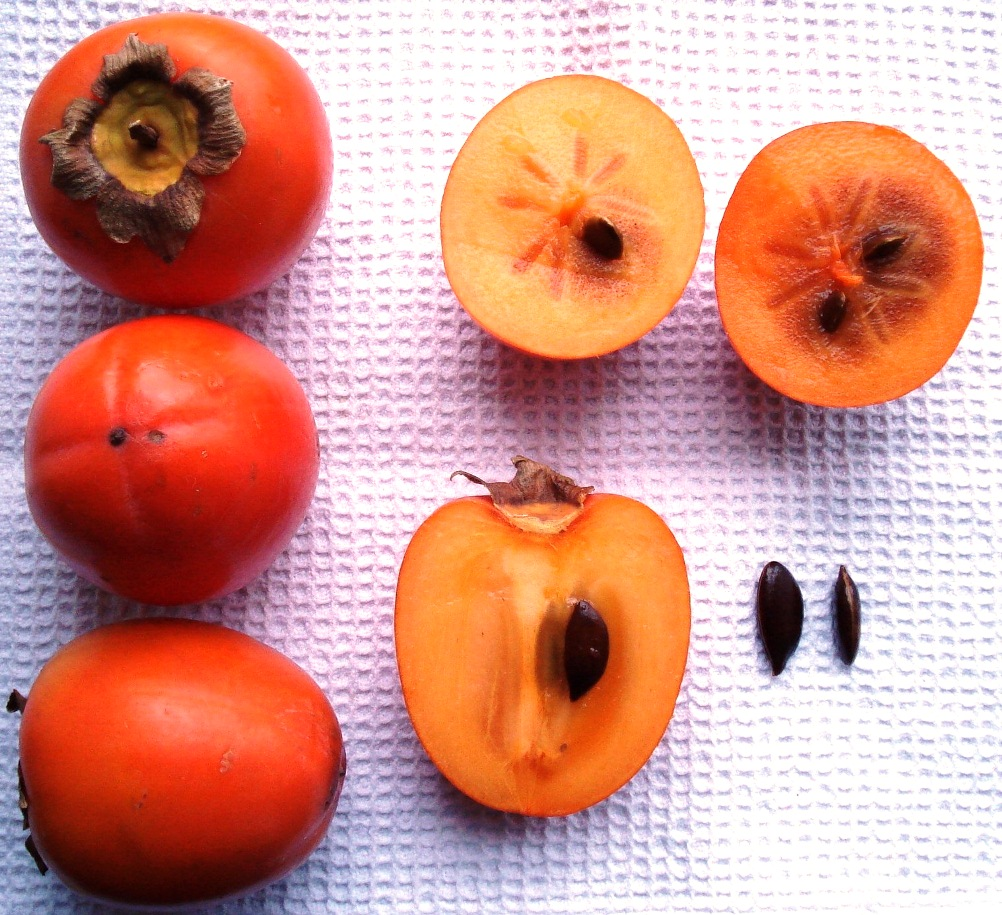 Diospyros kaki - fruit & seed